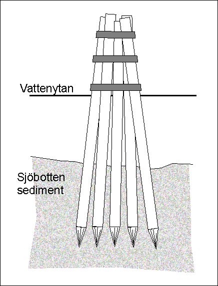 Dolphin used in harbour areas made of timber. Old type).